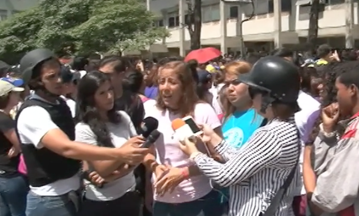 After National Guard prevents students leaving campus, FCU-UCV holds a protest inside